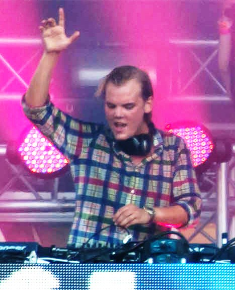 Avicii @ Inox Park Paris Chatou 2011